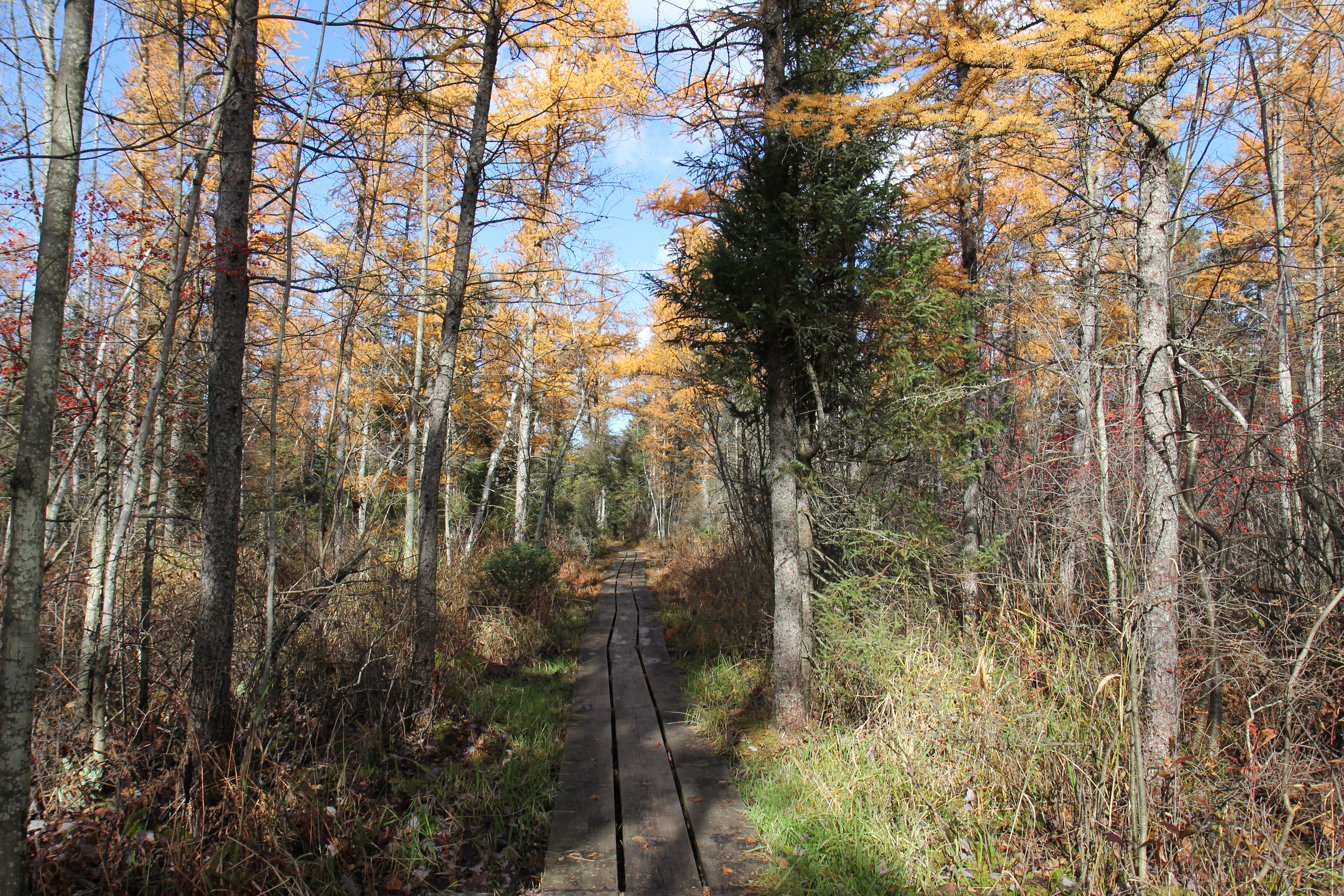 The boardwalk at the Spruce Lake Bog. The bogs is listed as a National Natural Lankmark.